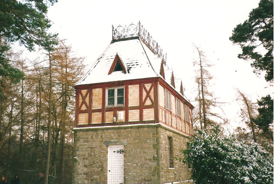 Leighton Hall Summerhouse Originally the top engine house for the funicular that fed the slurry tank, this was later used as a summerhouse.